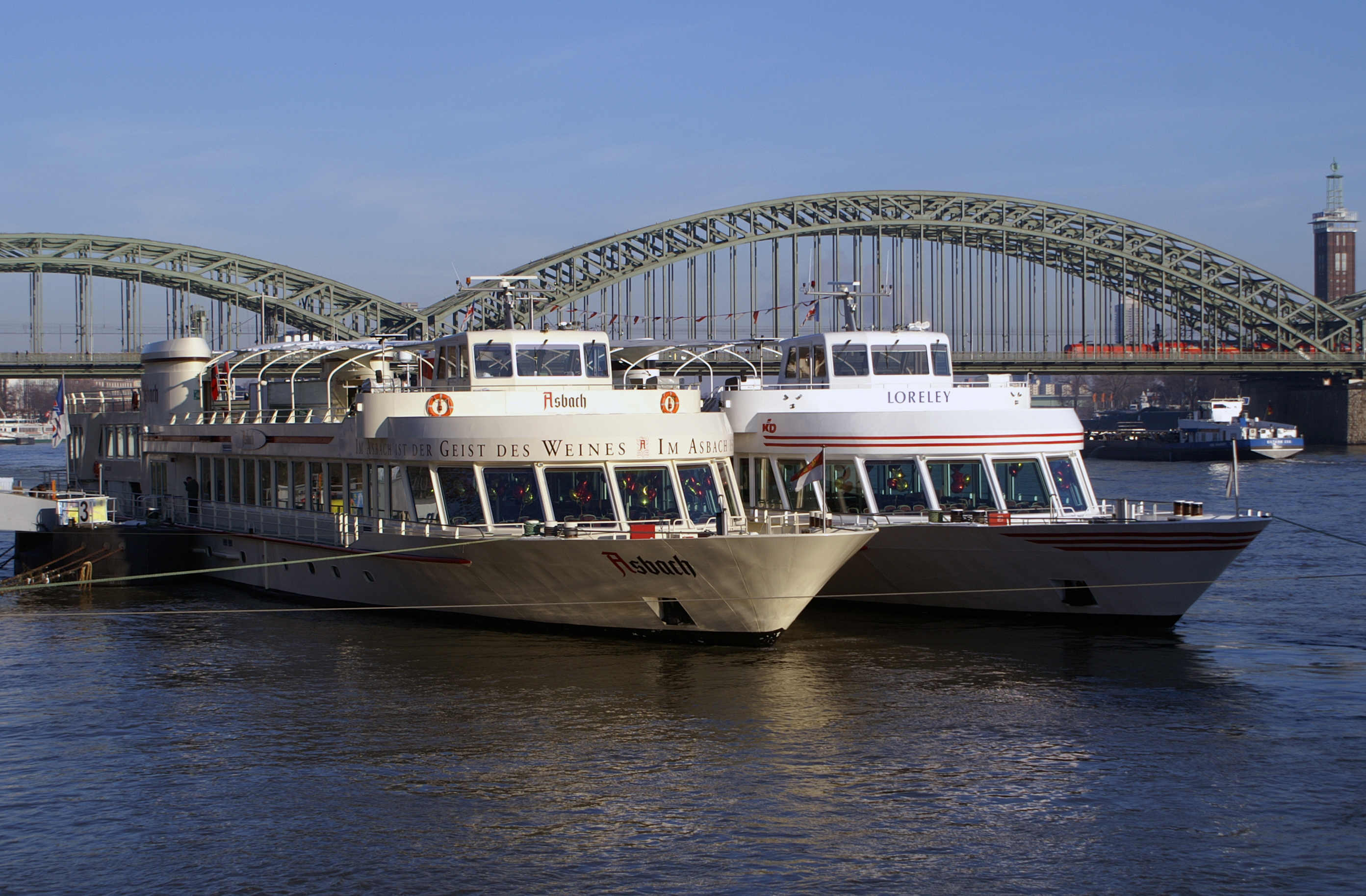 Passenger ship Asbach with the sister ship Loreley at the jetty 3 in cologne.